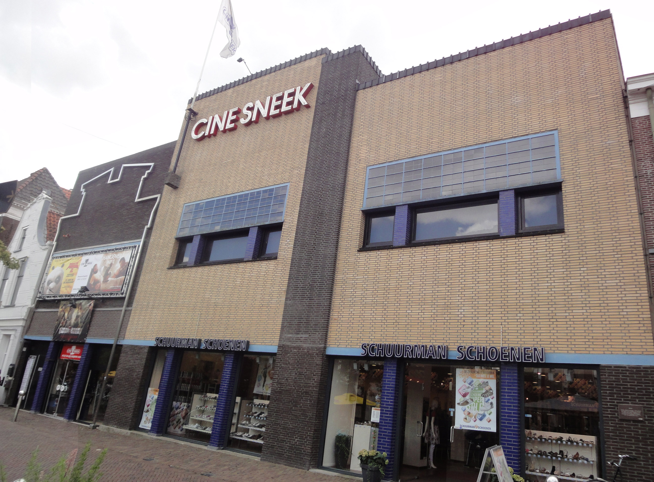 local cinema, Leeuwenburg 20